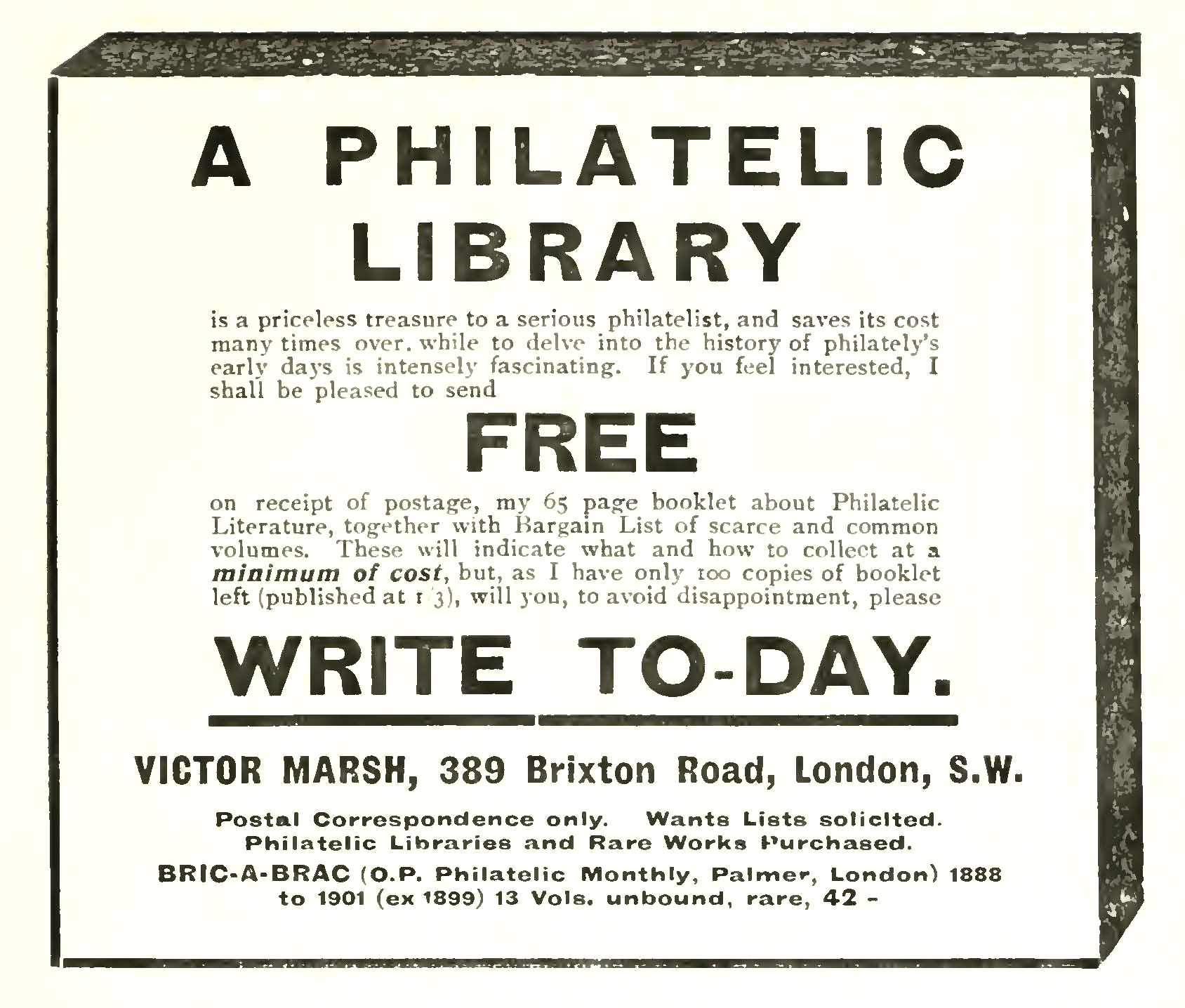 A 1906 advert for Herbert Edgar Weston, otherwise known as Victor Marsh, from "The Philatelic Index" by Wm. A. R. Jex Long, Glasgow 1906.